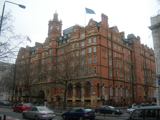 The Landmark This is a 5 star hotel on the Marylebone Road. Marylebone Station is just behind this hotel. The clock on the tower is incorrect, the time is actually 3.15 pm. British Summer Time started on the day this photo was taken but the weather is damp and windy.